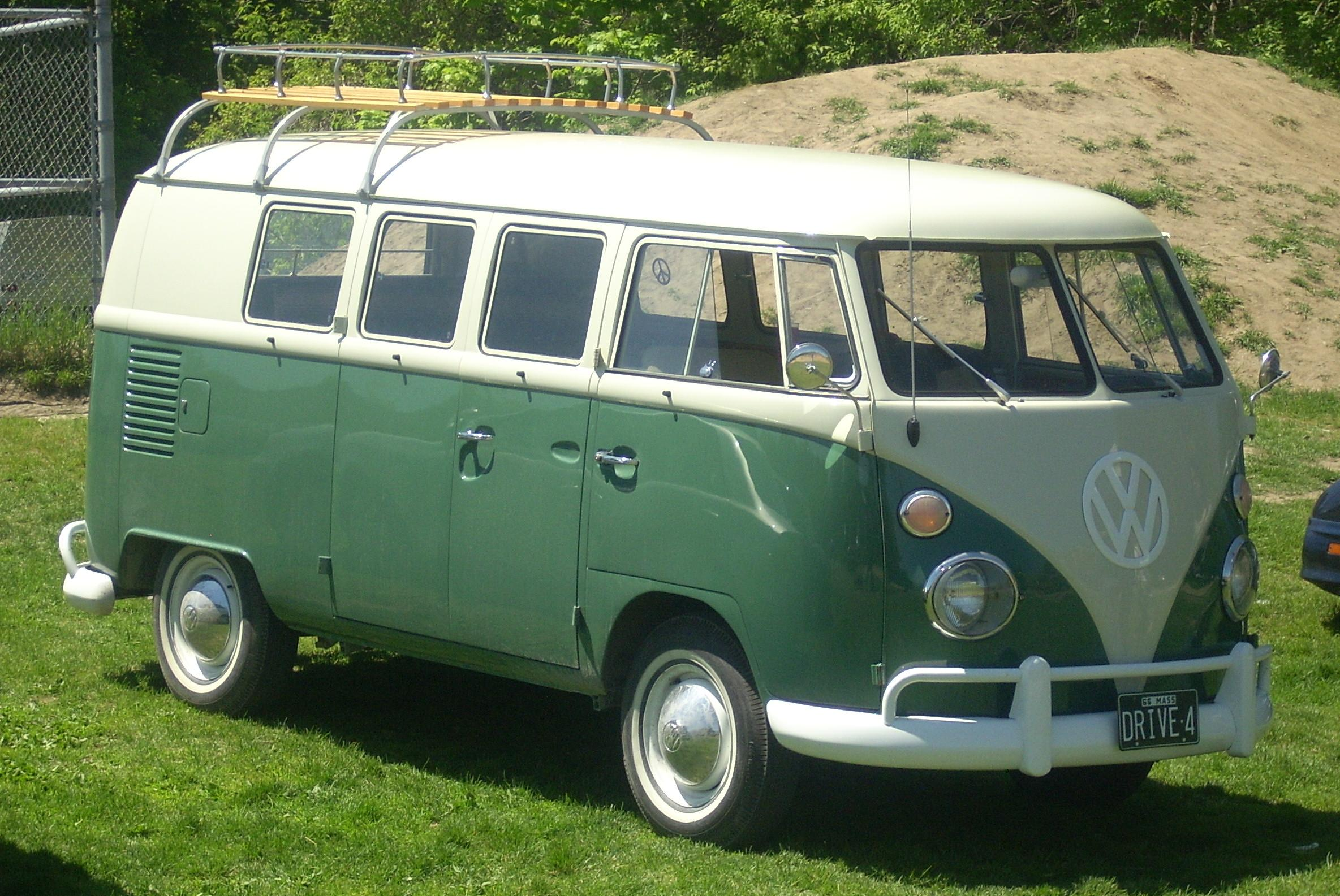 Volkswagen Bus photographed at the 2008 Hudson British Car Show